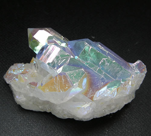 aurora aura crystal quartz cluster